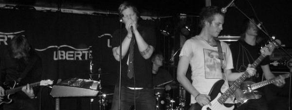 Killer Aspect live at Liberté